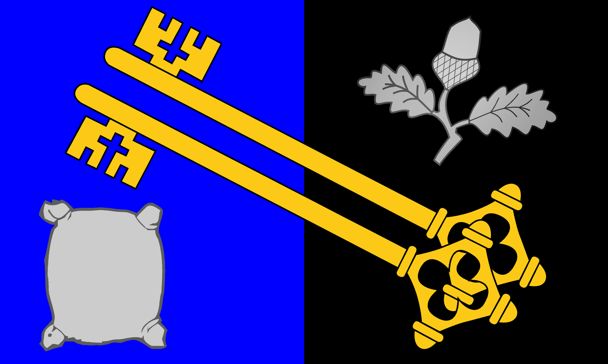 The County Flag of Surrey, a banner of arms of Surrey County Council consisting of: "Two halves, blue and black. The blue and also the gold colour in the design are taken from the arms of the Warrennes, the first Earls of Surrey; the black derives from the Arms of the towns of Guildford and Godalming. The interlaced gold keys which lie across the shield diagonally represent the power of the ancient Abbey of St Peter at Chertsey which once held extensive lands in Surrey. The keys form part of the Arms of the Diocese of Winchester - which used to include much of Surrey - and have also been retained in the Arms of the Diocese of Guildford. The sprig of oak symbolises Surrey's extensive rural areas and is drawn from the Badge of the FitzAlans, former Earls of Surrey. It also appears in the mouth of the Supporters of the Arms of the Duke of Norfolk, the present Earl of Surrey. The woolpack recalls the importance of the wool trade in medieval Surrey and acts as a reminder of the ancient wealth of the County."